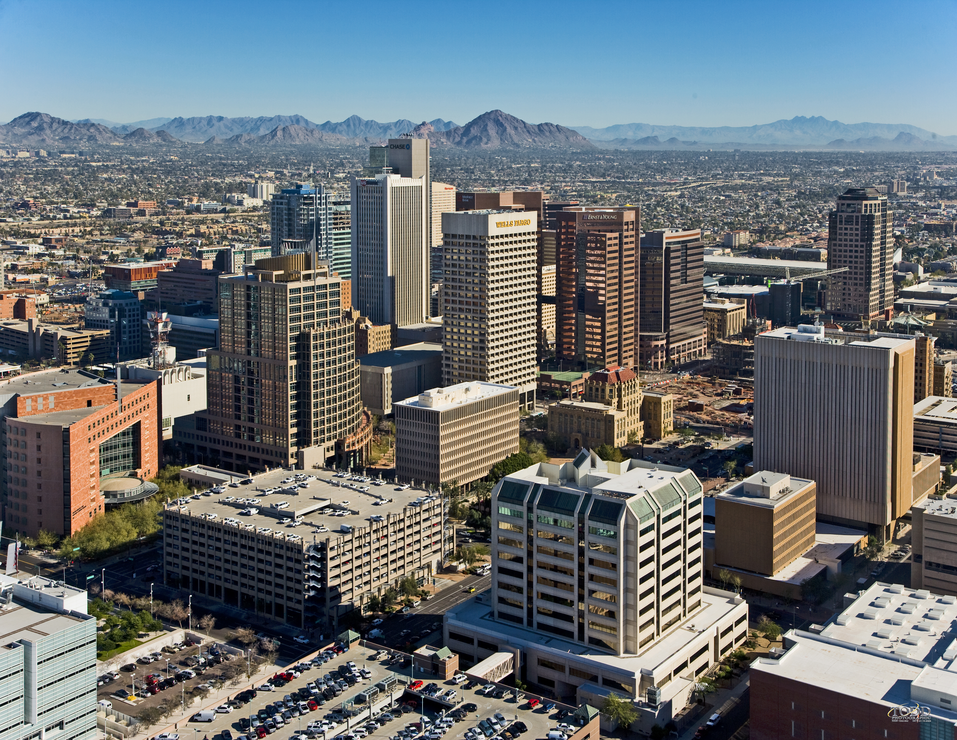 Skyline view of Phoenix — looking northeast from a helicopter, from above the 4th Avenue Jail. Foreground is the Central City Village and Central Avenue Corridor of Downtown Phoenix. In the foreground Municipal and County Courts are visible along with other Downtown skyscrapers, in the background Camelback Mountain and Four Peaks are visible.